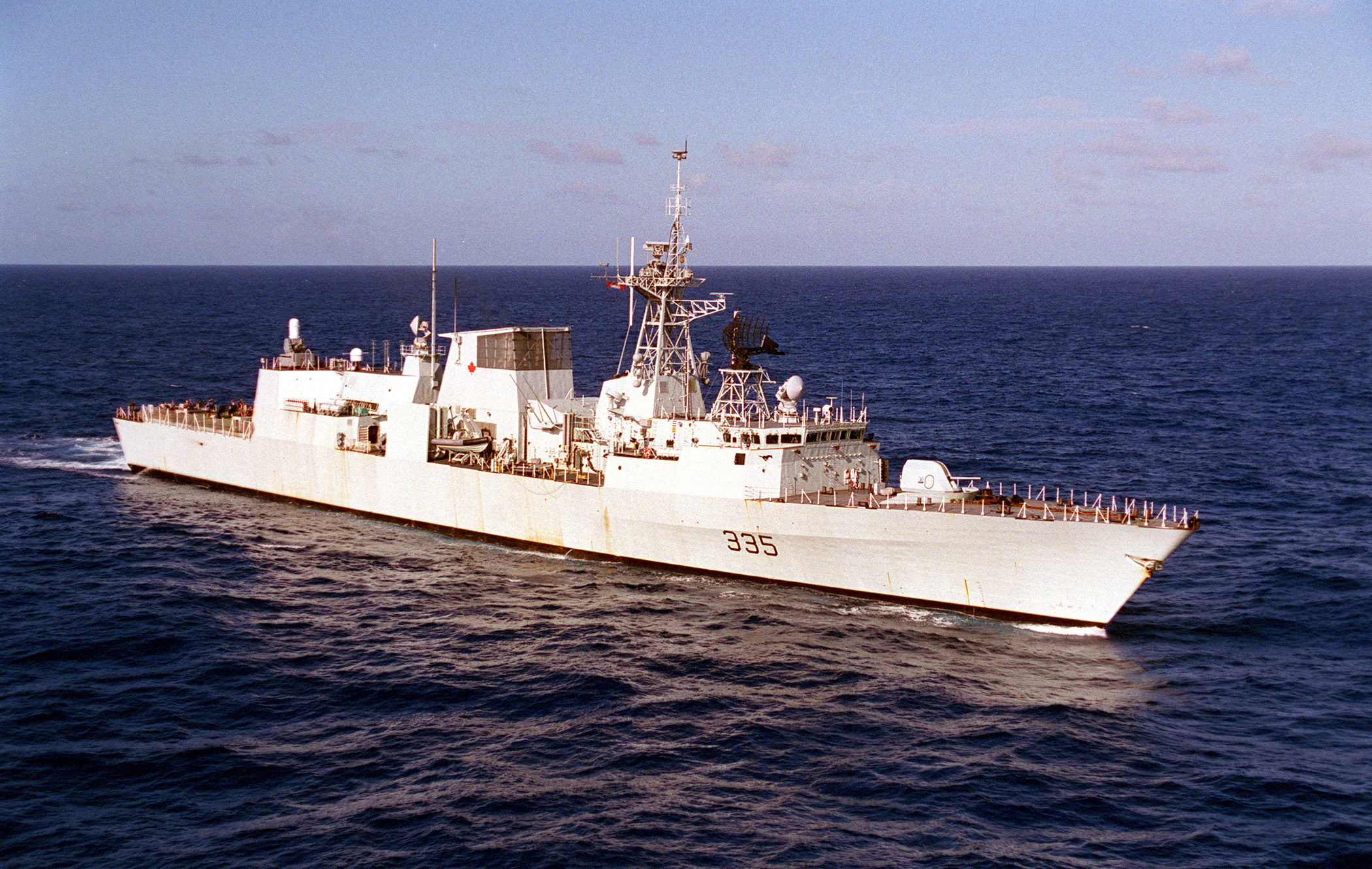 The Canadian frigate HMCS Calgary (FFH 335) steams slowly through the Pacific Ocean where she is operating with other forces for exercise "Tandem Thrust '99".